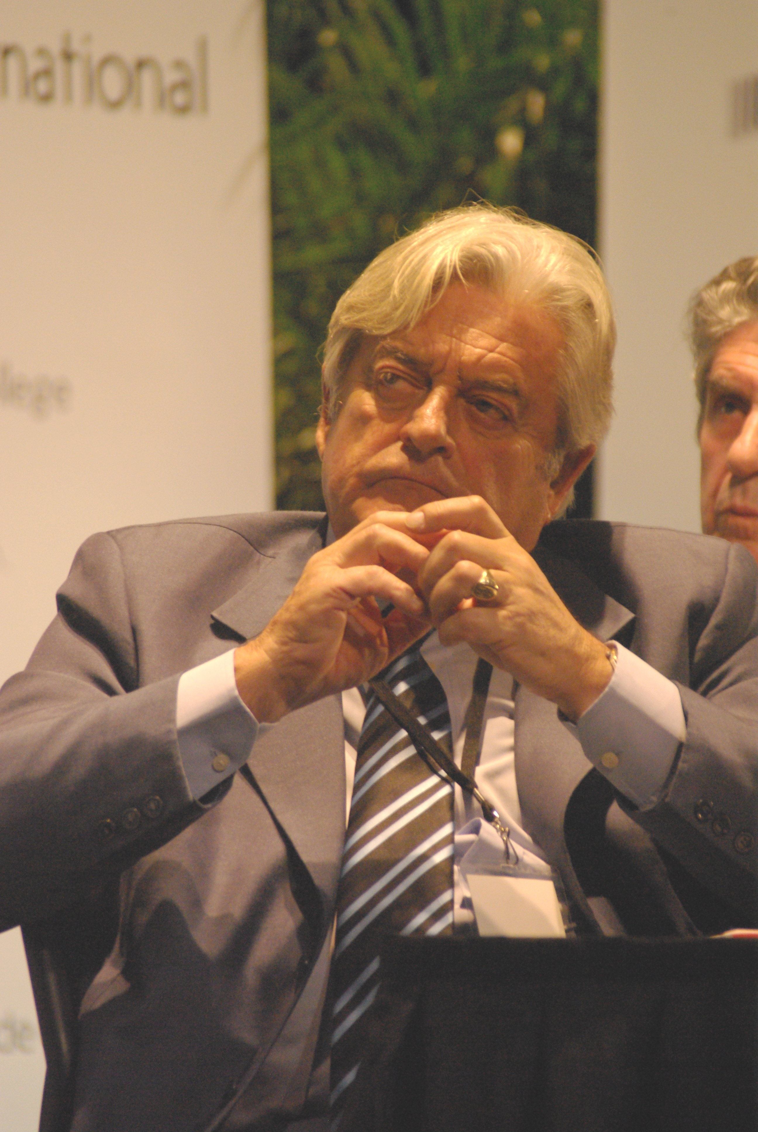 Former president of Uruguay Luis Alberto Lacalle at the 2011 Miami Book Fair International